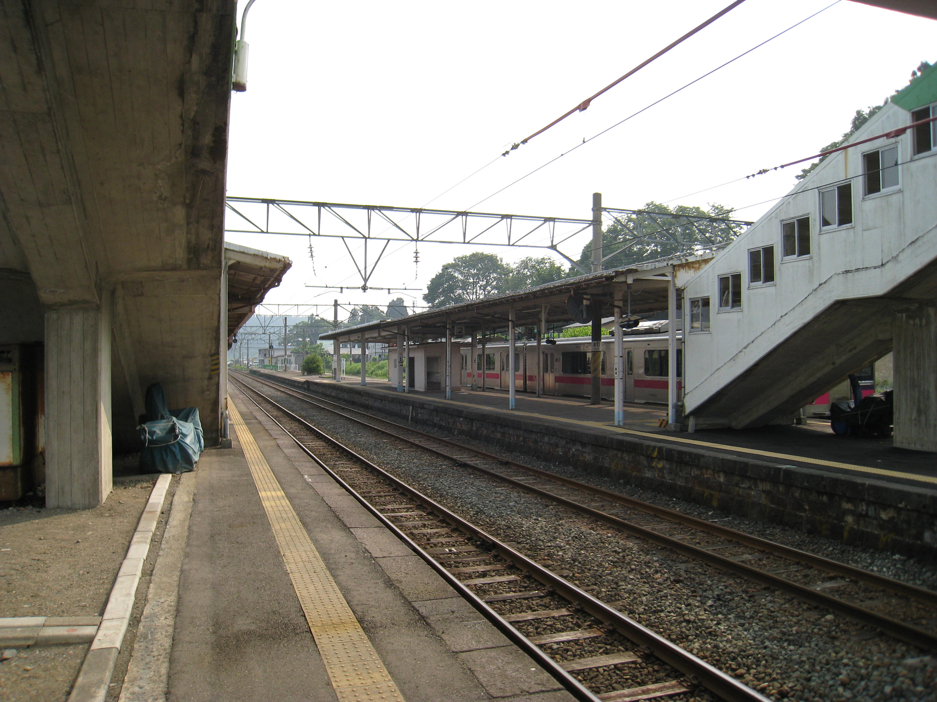 Mamurogawa Station. Plathome view. Oou-line